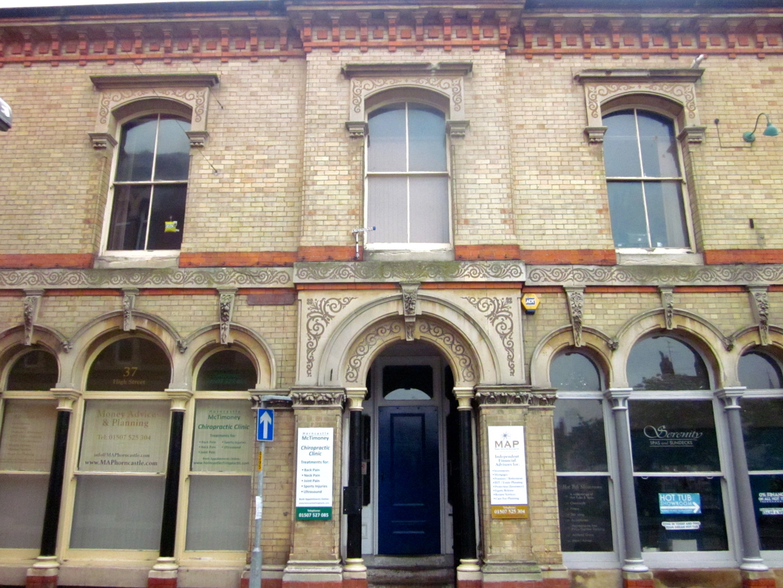 Punch House, Market Place, Horncastle